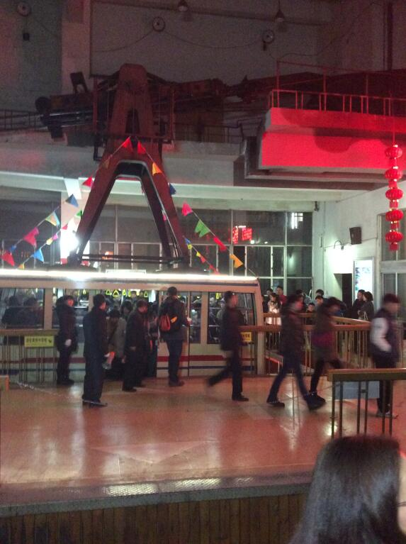 重庆过江索道